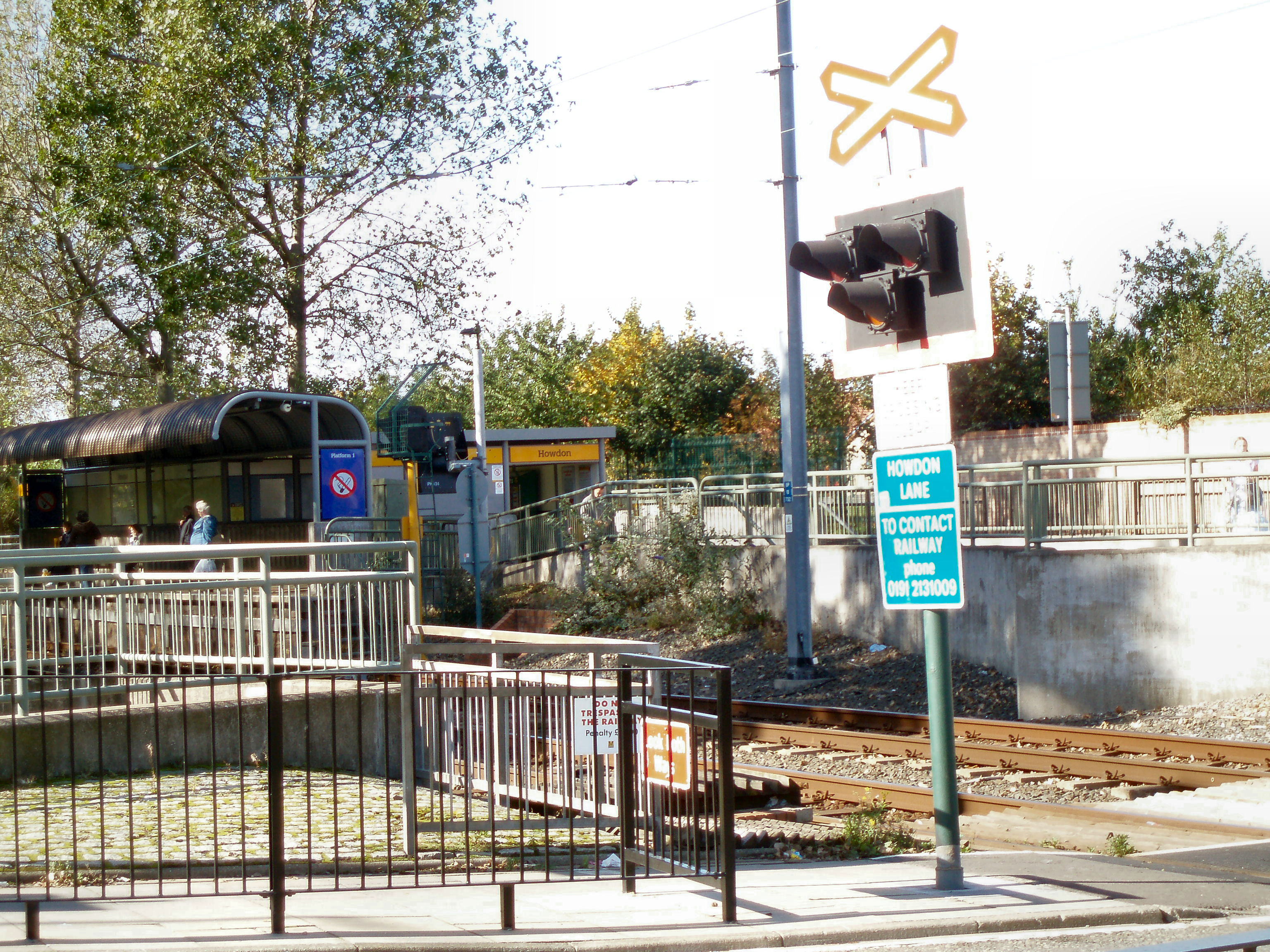 Howdon station on the Tyne and Wear Metro. The view north west from Howdon Lane across the tracks to the Platform 1 building.